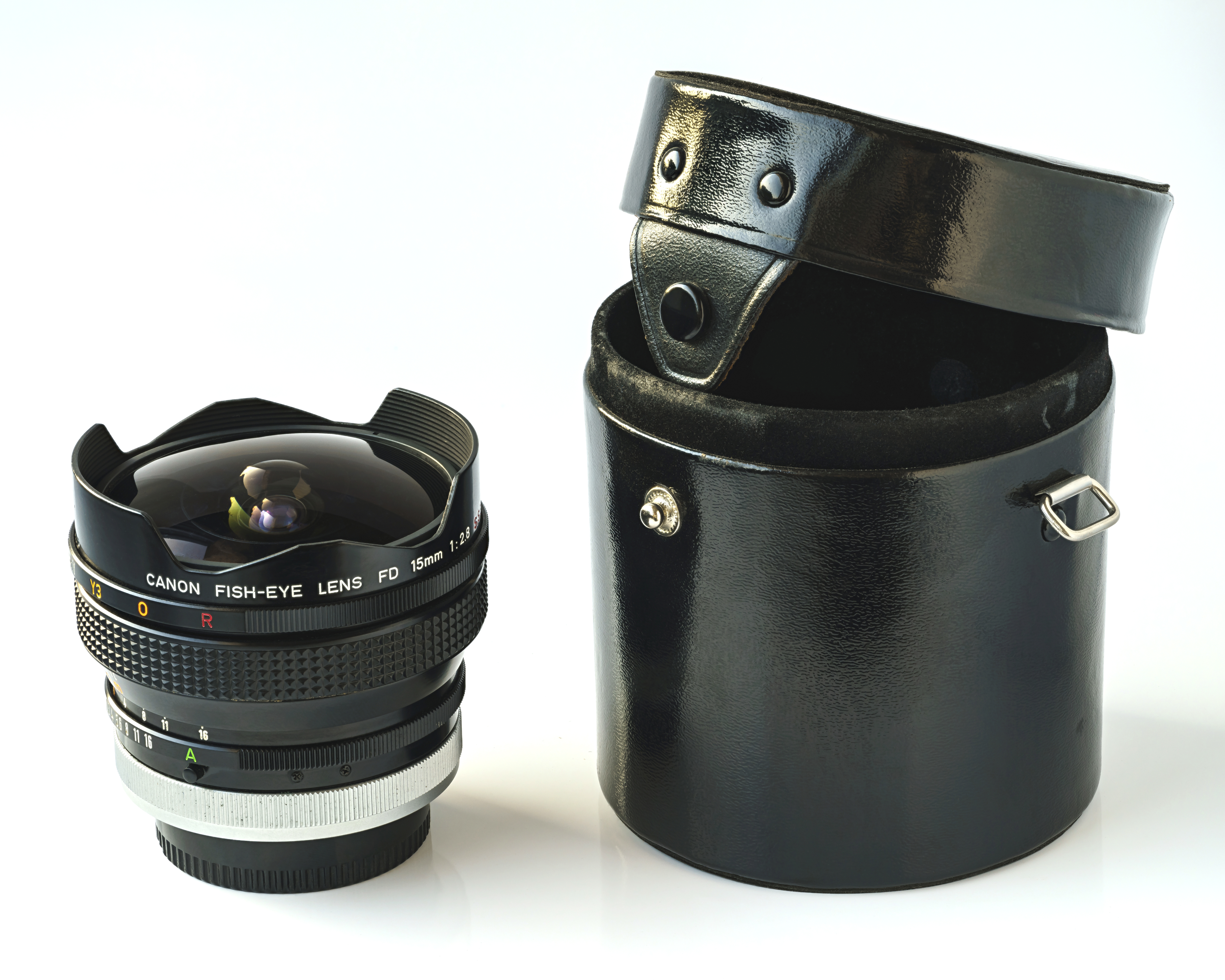 Canon 15mm f2.8 SSC fisheye lens and its original satchel. Purchased in 1980.